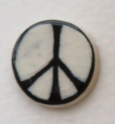 original ceramic badge made in 1958 by Eric Austen. photographed by Gea Jones. Daughter.